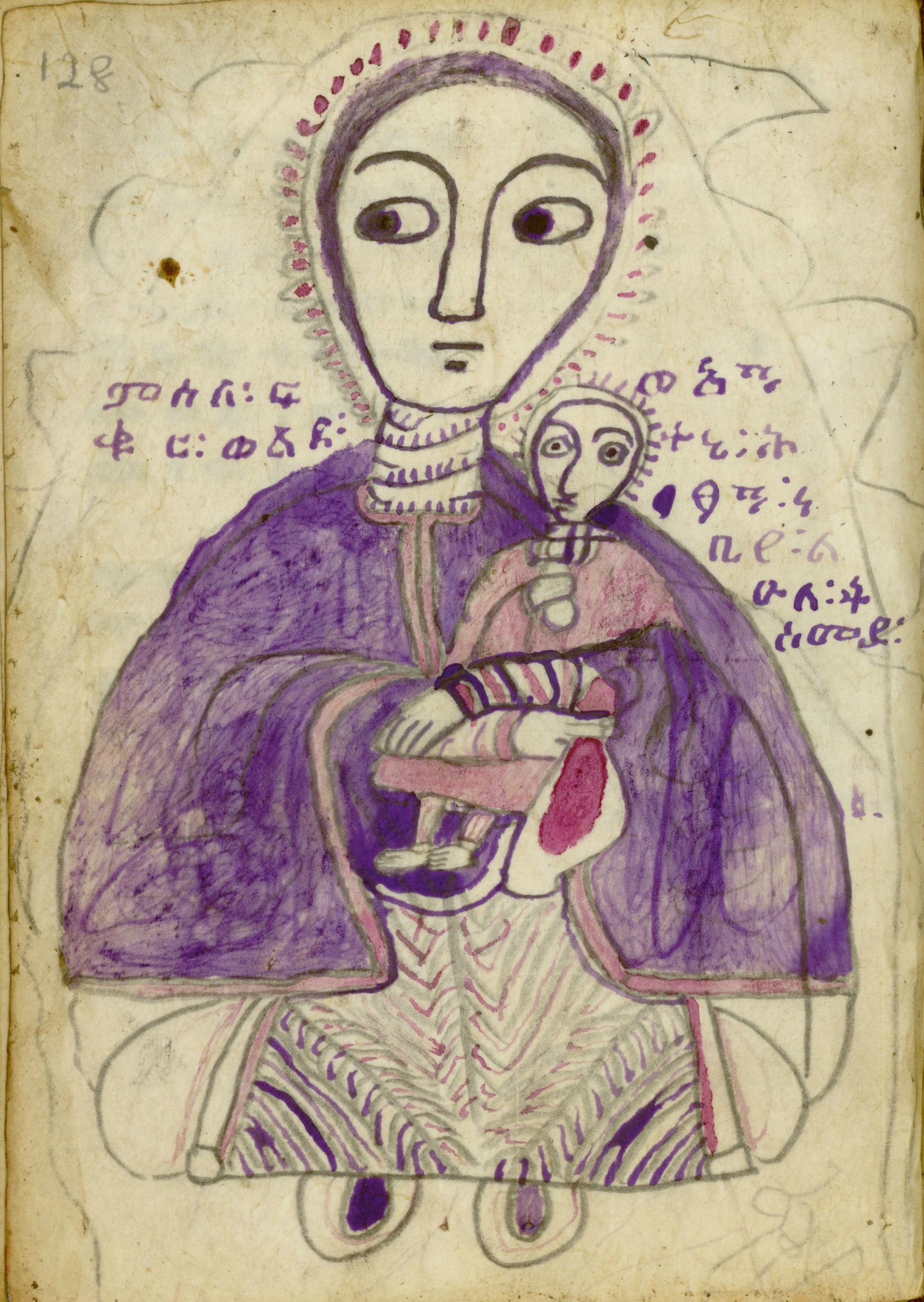 Title: Ms. 3 Weddasé Māryām, Anqaṣa Berhān, Yewédeswā Malā’ekt, Mālk’ā Māryām, Malek’ā Eyasus Page 128 Project : Ethiopic Manuscripts Content Type : Manuscript